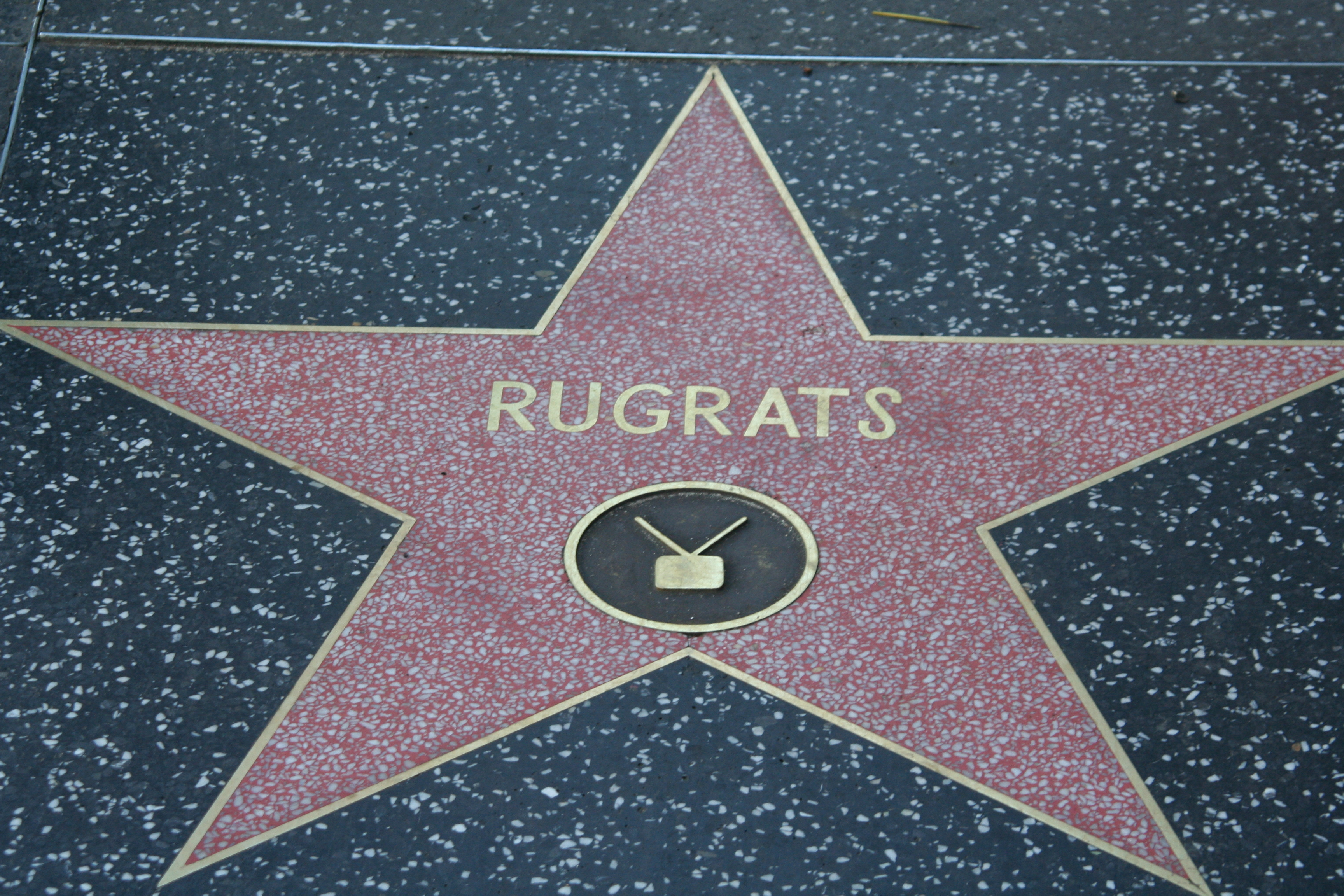 Rugrats is an animated television series, the adventure with nappies, produced by Klasky Csupo, Inc, Nickelodeon, and Paramount. The series ran from 1991 to 1994, and again from 1997 to 2004. The show is about how babies and young children view life and perceive the events happening around them.